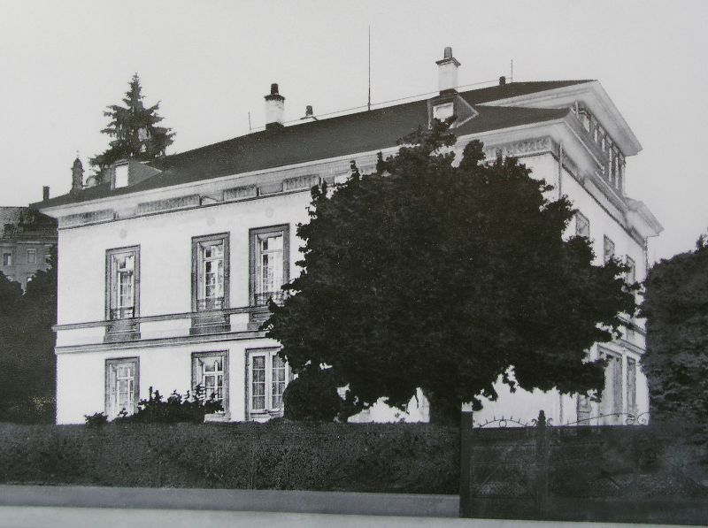 The Villa Köstlin in Rümelinstraße 27 in Tübingen (Germany) at the edge of the Old Botanic Garden.